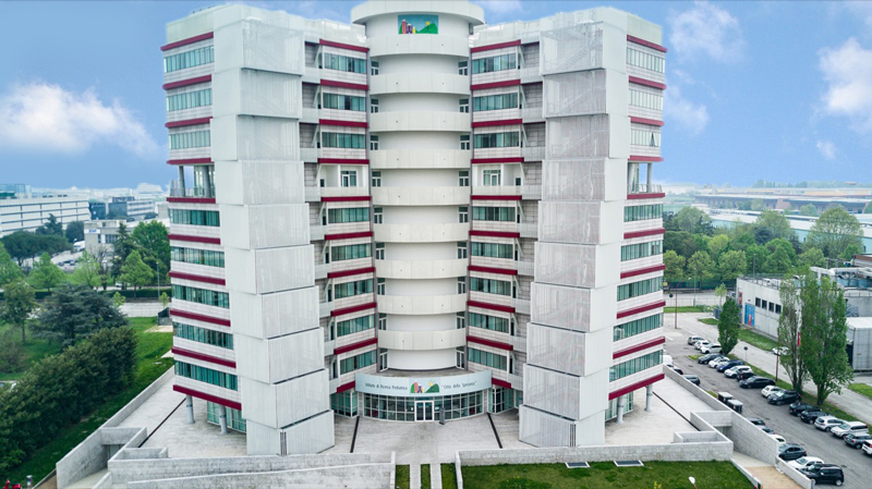 Sede dell'Istituto di Ricerca pediatrica Città della Speranza